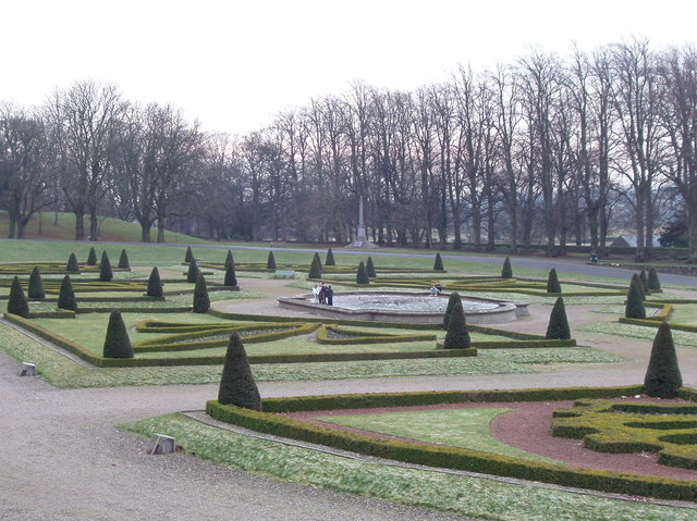 Formal garden of The Bowes Museum The garden in French style was designed by John and Joséphine Bowes about 1870. When we visited the pond in the middle was frozen, and local youths were sliding across it.